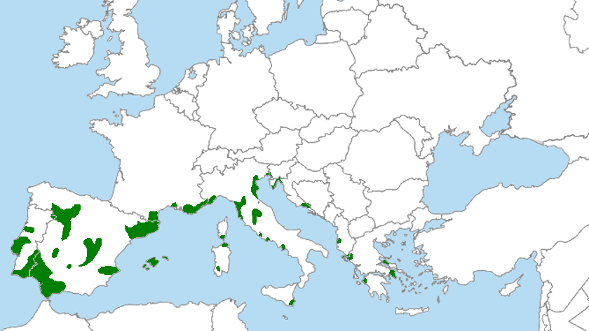 Stone pine (Pinus Pinea) range